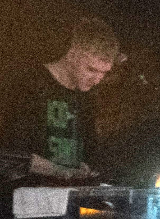 Field Day Victoria Park 75 Mura Masa performing at Field Day 2017